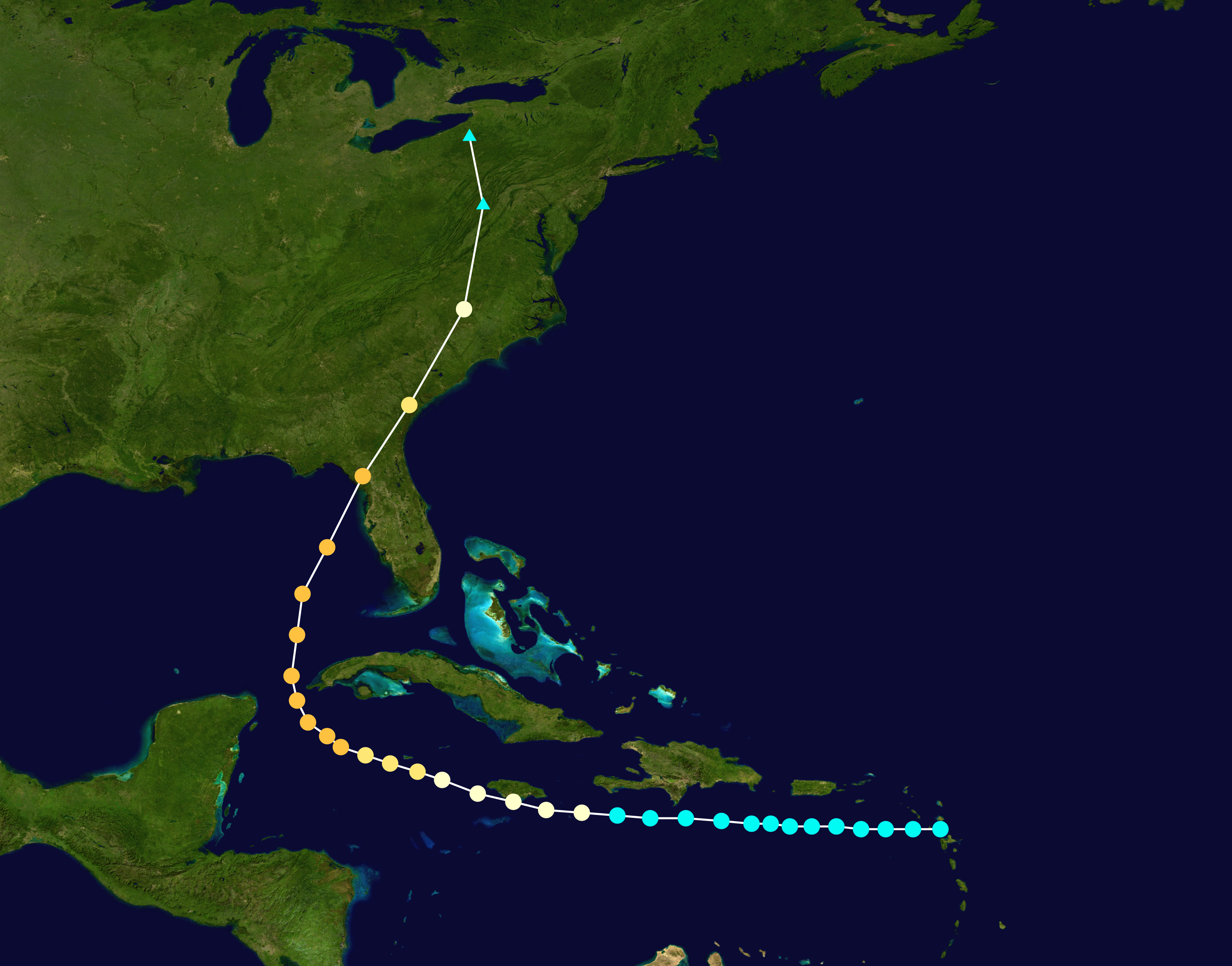 1896 Atlantic hurricane 4 track. Uses the color scheme from the Saffir-Simpson Hurricane Scale.